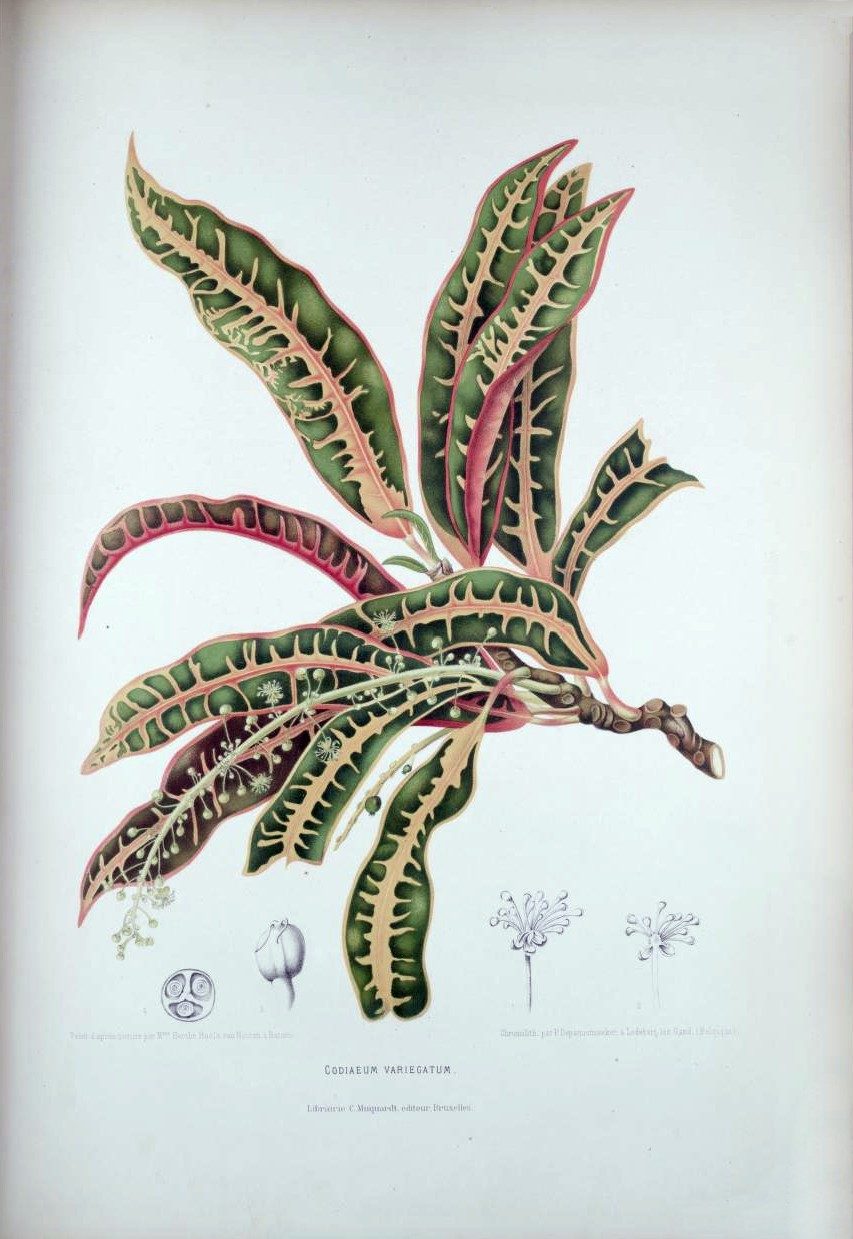 Codiaeum variegatum (L.) A. Juss. from "Fleurs, Fruits et Feuillages Choisis de l'Ile de Java" [Selected Flowers, Fruit and Foliage from the Island of Java]